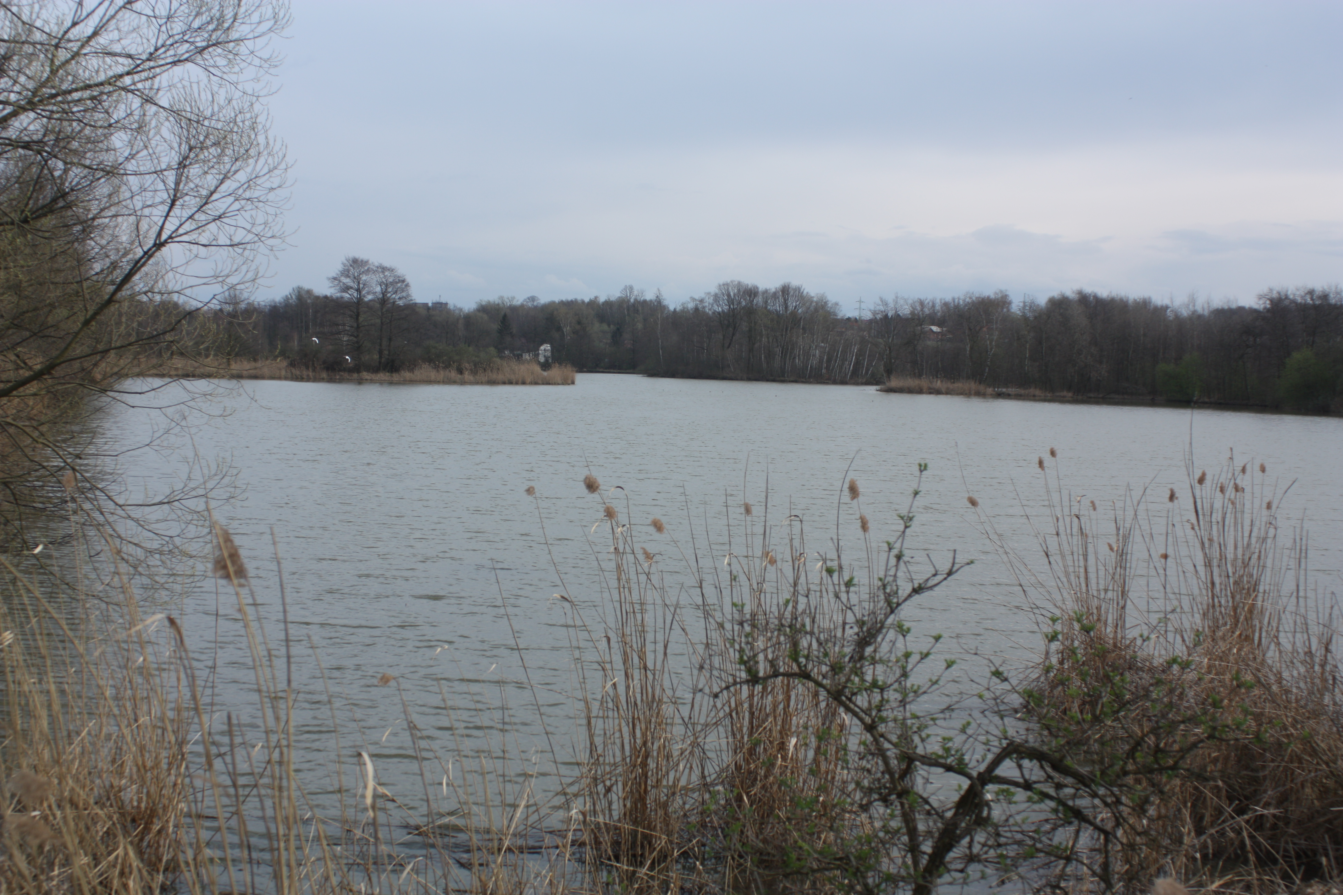 Pond Kališčok in Orlová, Karviná District, Moravian-Silesian Region, Czech Republic